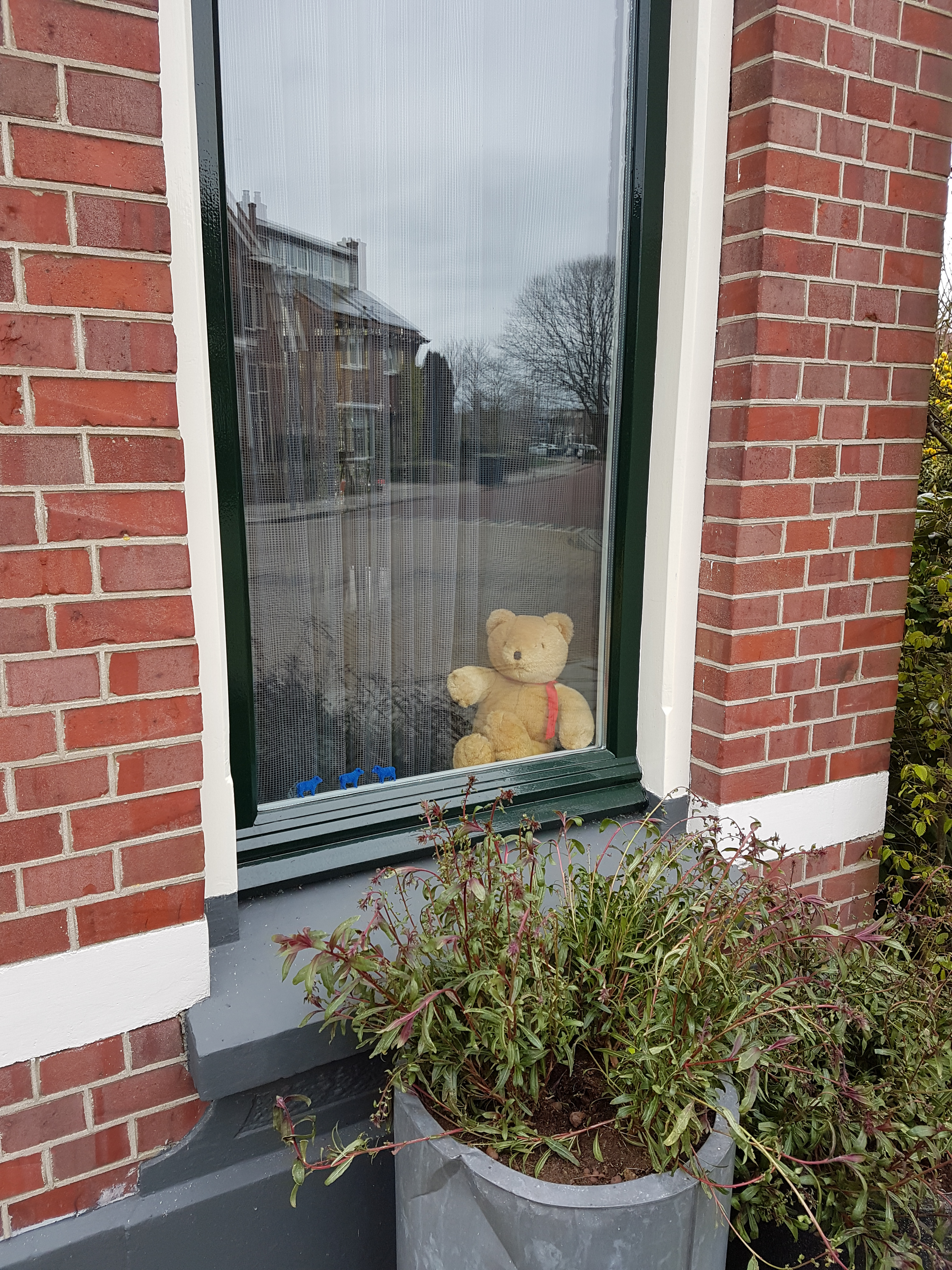 The teddy bear hunt is a treasure hunt for children in the Netherlands and Belgium during COVID-19